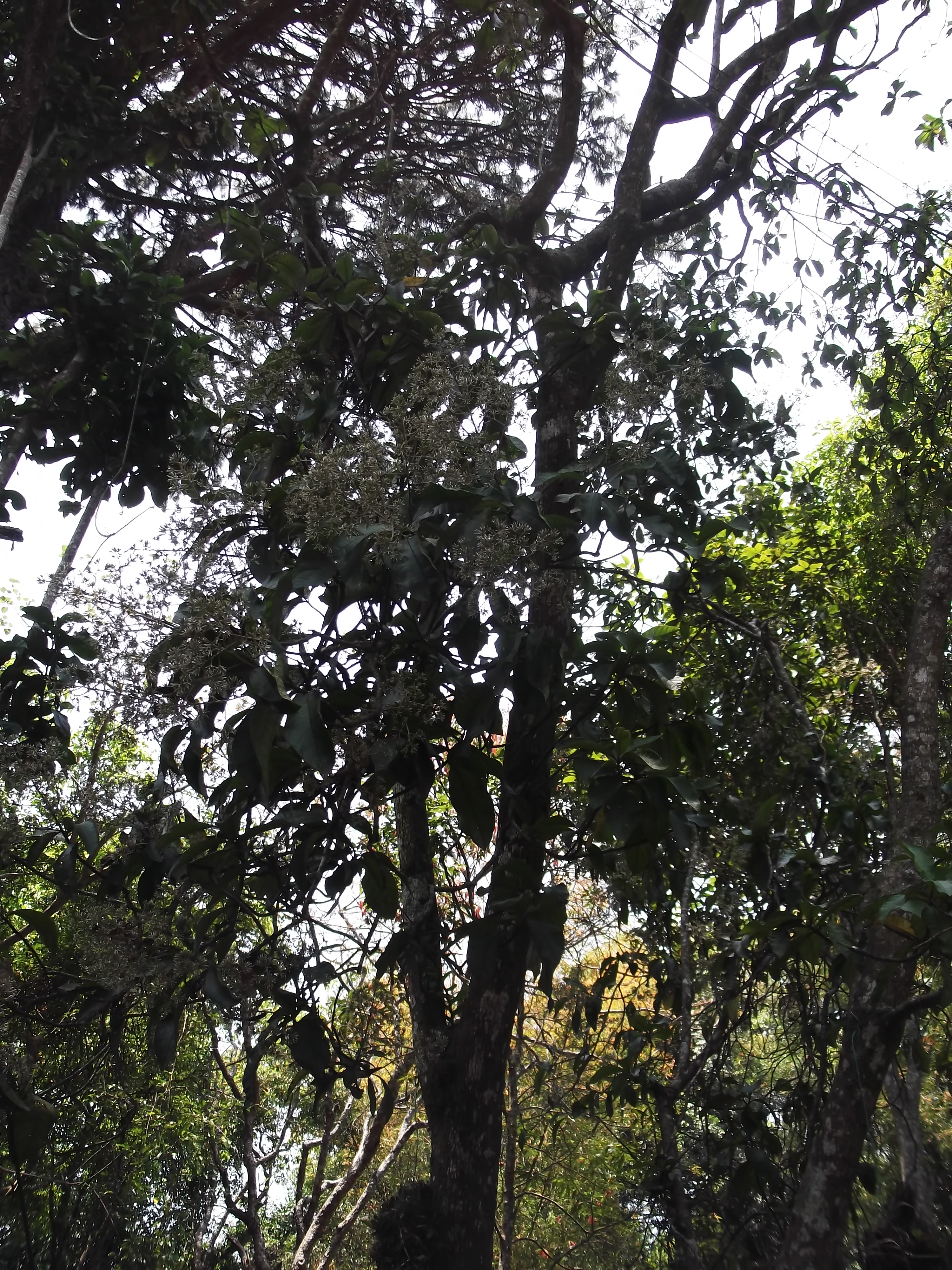 Asteraceae-endangered tree,very rare,flowers purple,fragrants.